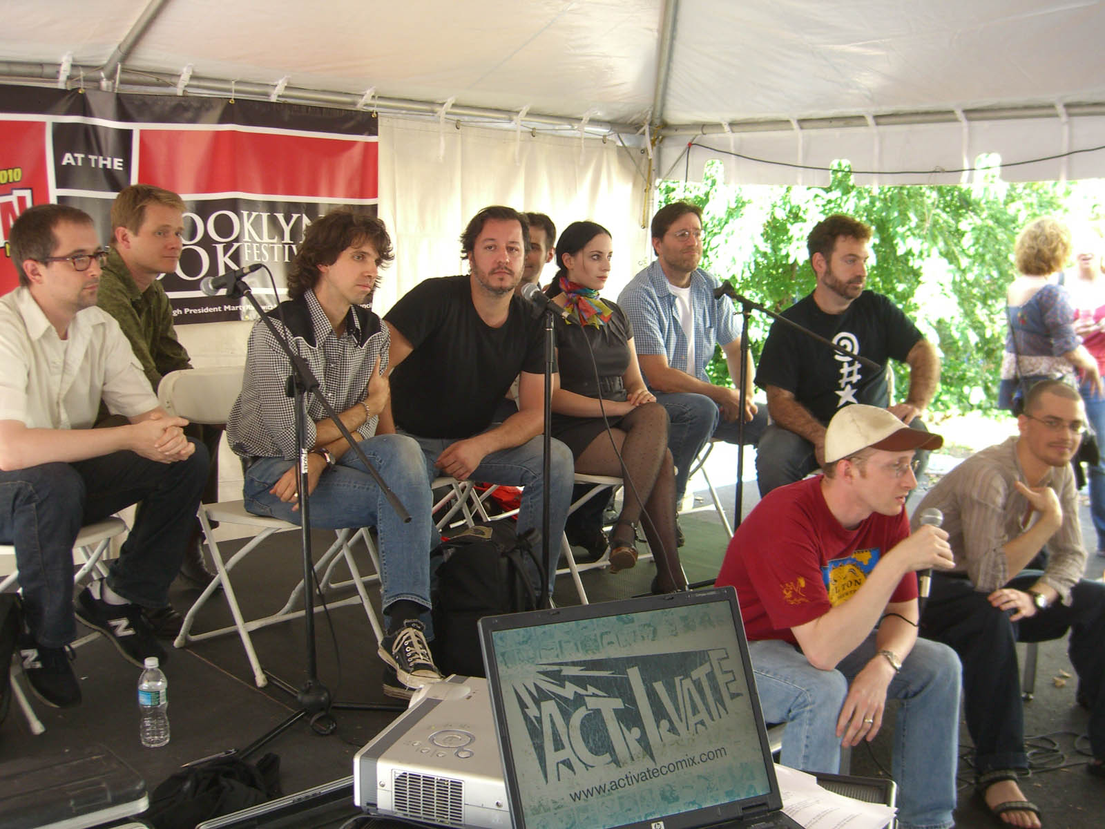 Comics creators and ACT-I-VATE members (Seated left to right on chairs) Joe Infurnari, Simon Fraser, Tom Hart, Dean Haspiel, Nathan Schreiber, Molly Crabapple, Tim Hamilton, and moderator Jeff Newelt, and (seated on the edge of the stage) Jason Little, and Rami Efal, speaking on a panel about their work at the 2009 Brooklyn Book Festival.